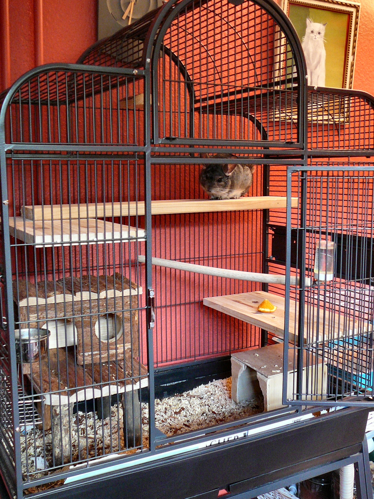 A parrot cage converted into a cage for a pet chinchilla.